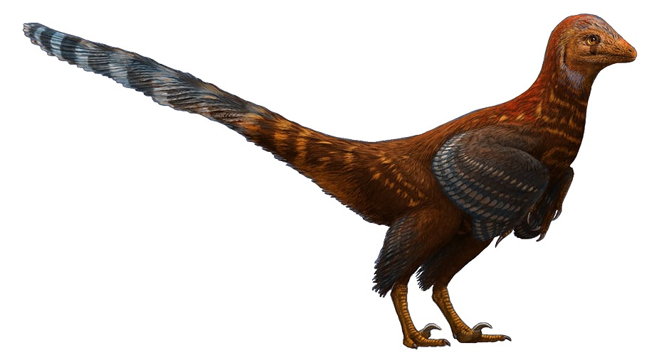 Life reconstruction of Jianianhualong tengi.